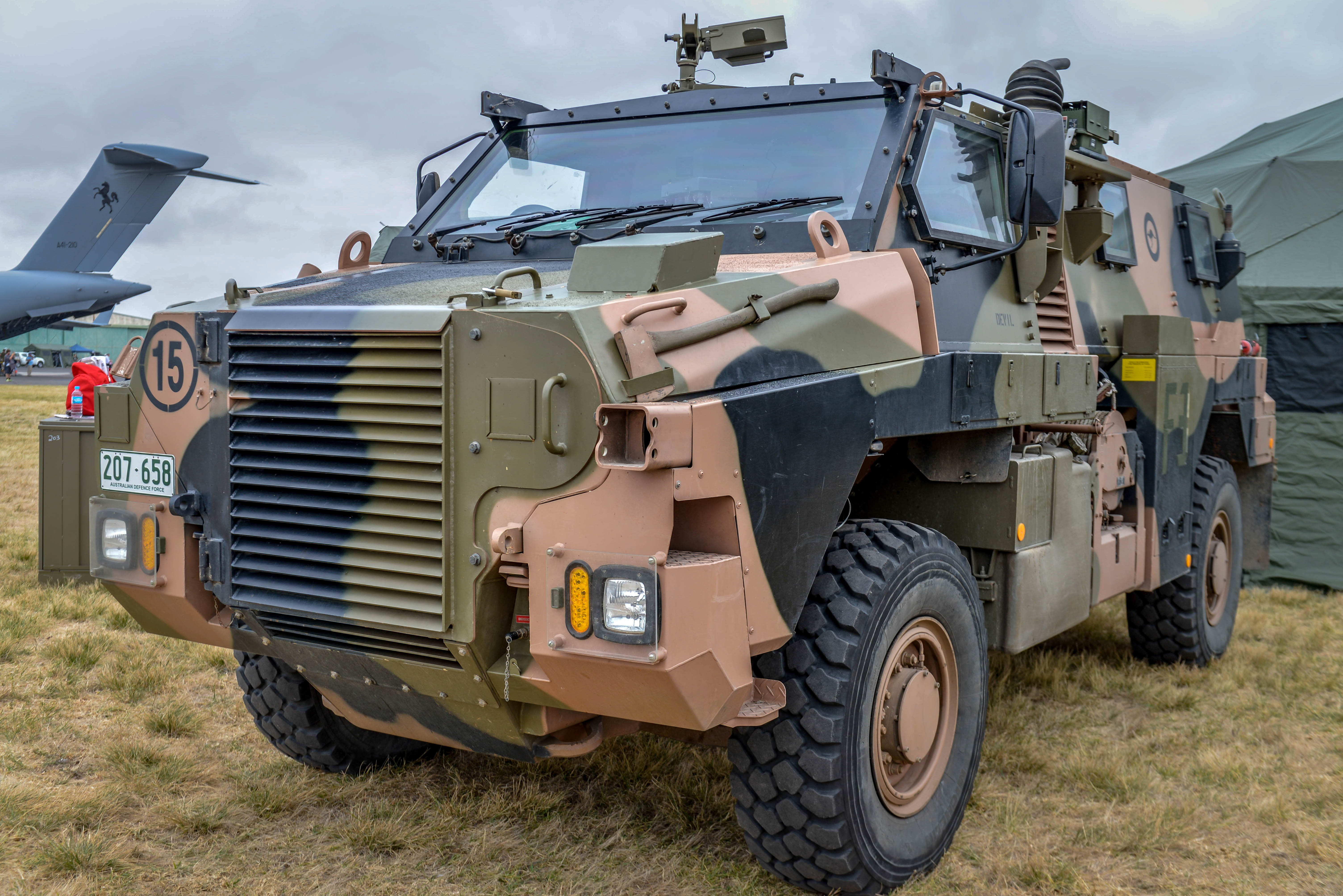 Bushmaster Protected Mobility Vehicle on display at Centenary of Military Aviation 2014